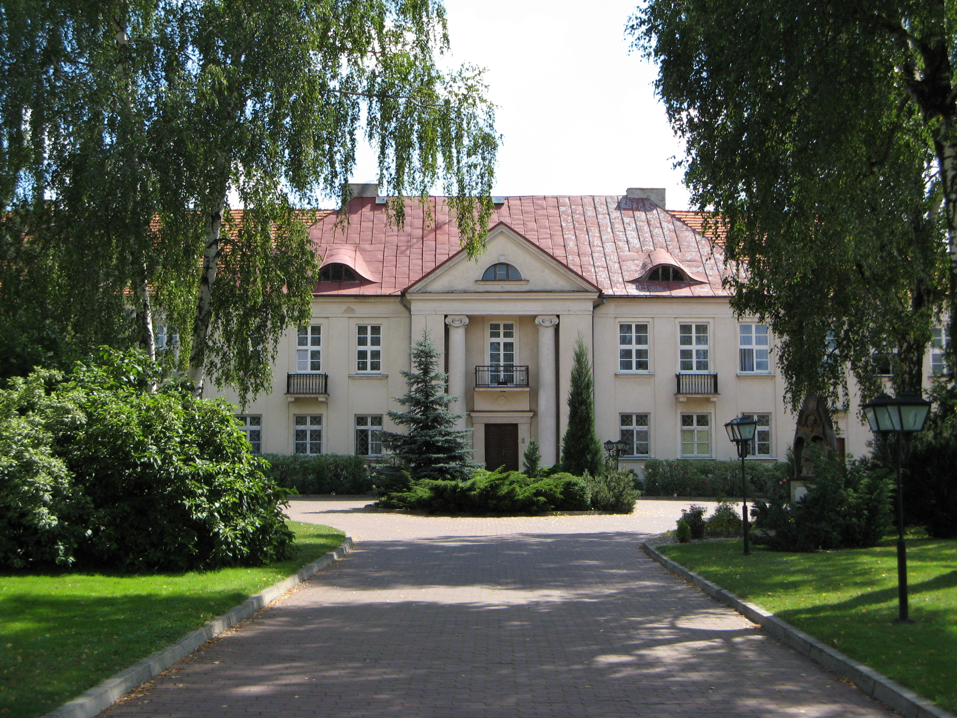 Neoclassical Episcopal Palace in Łomża